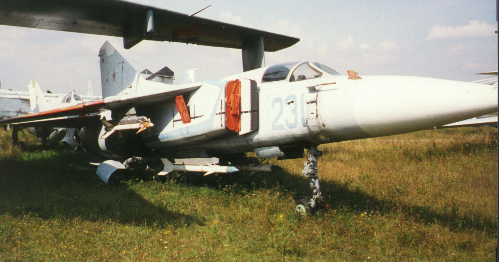 MiG-23 Prototyp, 1997 in Monino